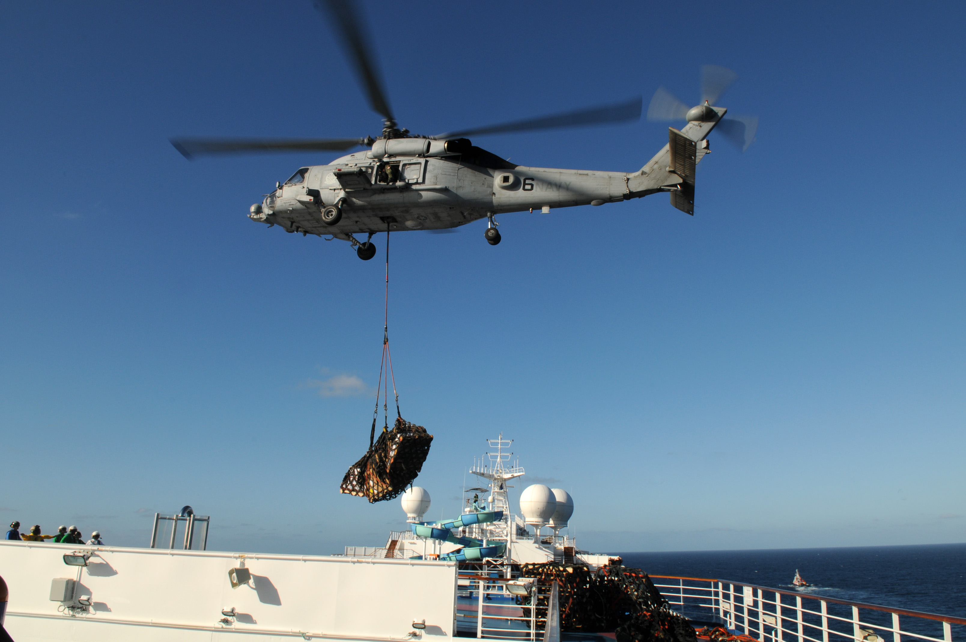 An HH-60H Sea Hawk helicopter assigned to the Black Knights of Helicopter Anti-Submarine Squadron (HS) 4, embarked aboard the aircraft carrier USS Ronald Reagan (CVN 76), lowers pallets of supplies on the weather deck of Carnival cruise ship C/V Splendor during an emergency vertical replenishment. Ronald Reagan was diverted from its training maneuvers at the direction of Commander, U.S. Third Fleet, and at the request of the U.S. Coast Guard, to a position near the Carnival cruise ship C/V Splendor. Ronald Reagan is facilitating the delivery of 4,500 pounds of supplies to CV Splendor after the cruise ship became stranded 150 nautical miles southwest of San Diego early Monday.